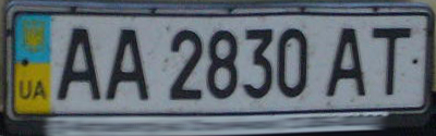 License plate from Kiev, Ukraina. Series issued since April 1, 2004.